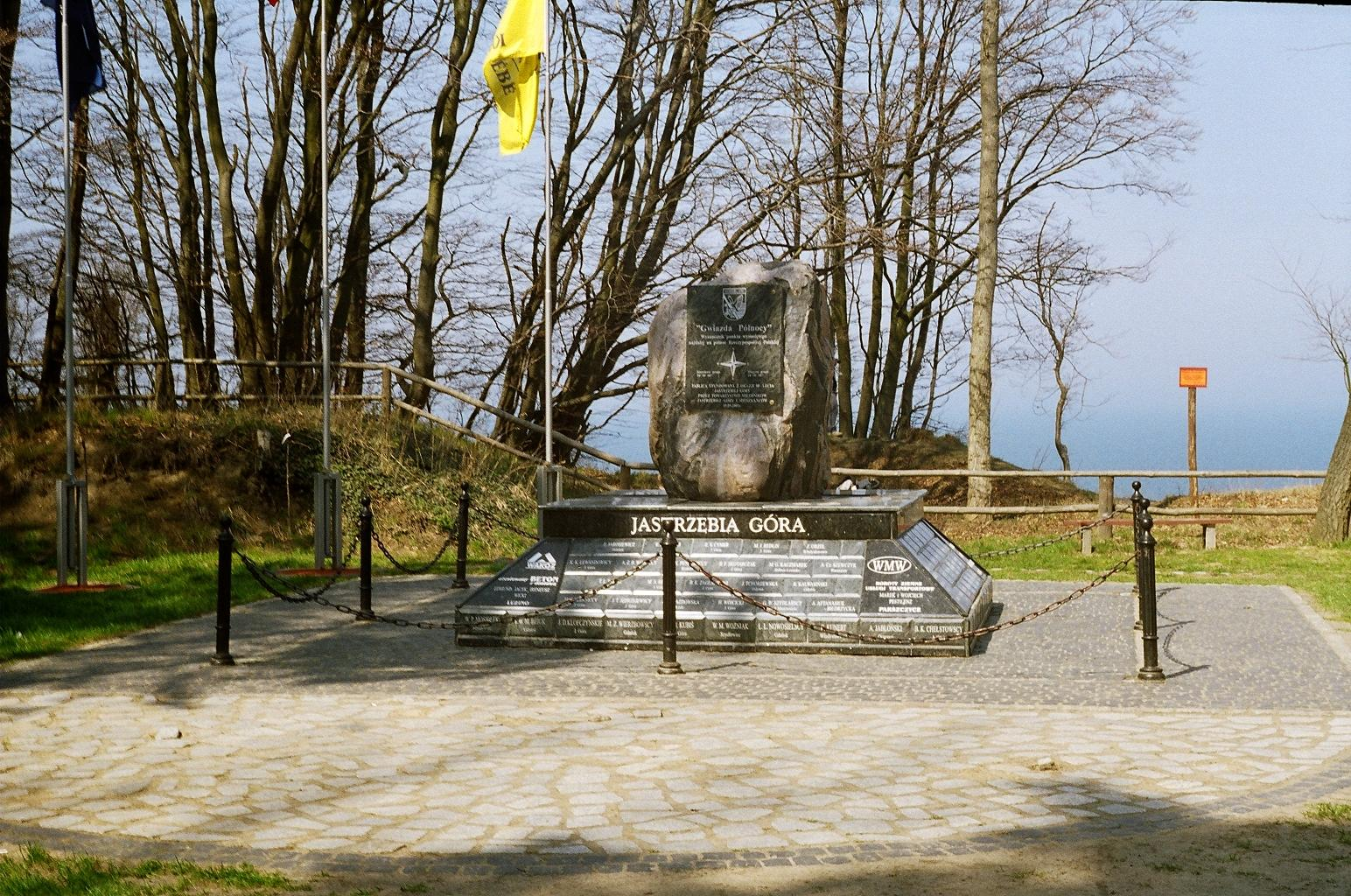 A monument called North Star. It marks the Poland's furthest point to the North